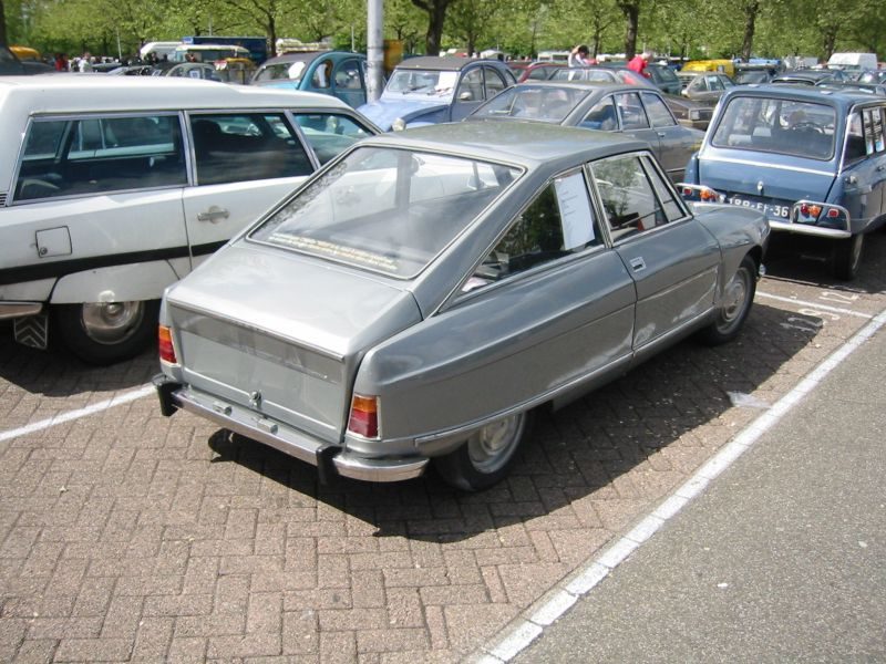 Citroën M35, 1970, taken at car show